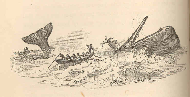 [Sperm whale with whalers] Subject: Sperm whale, Whalers (Persons) Tag: Aquatic Mammals